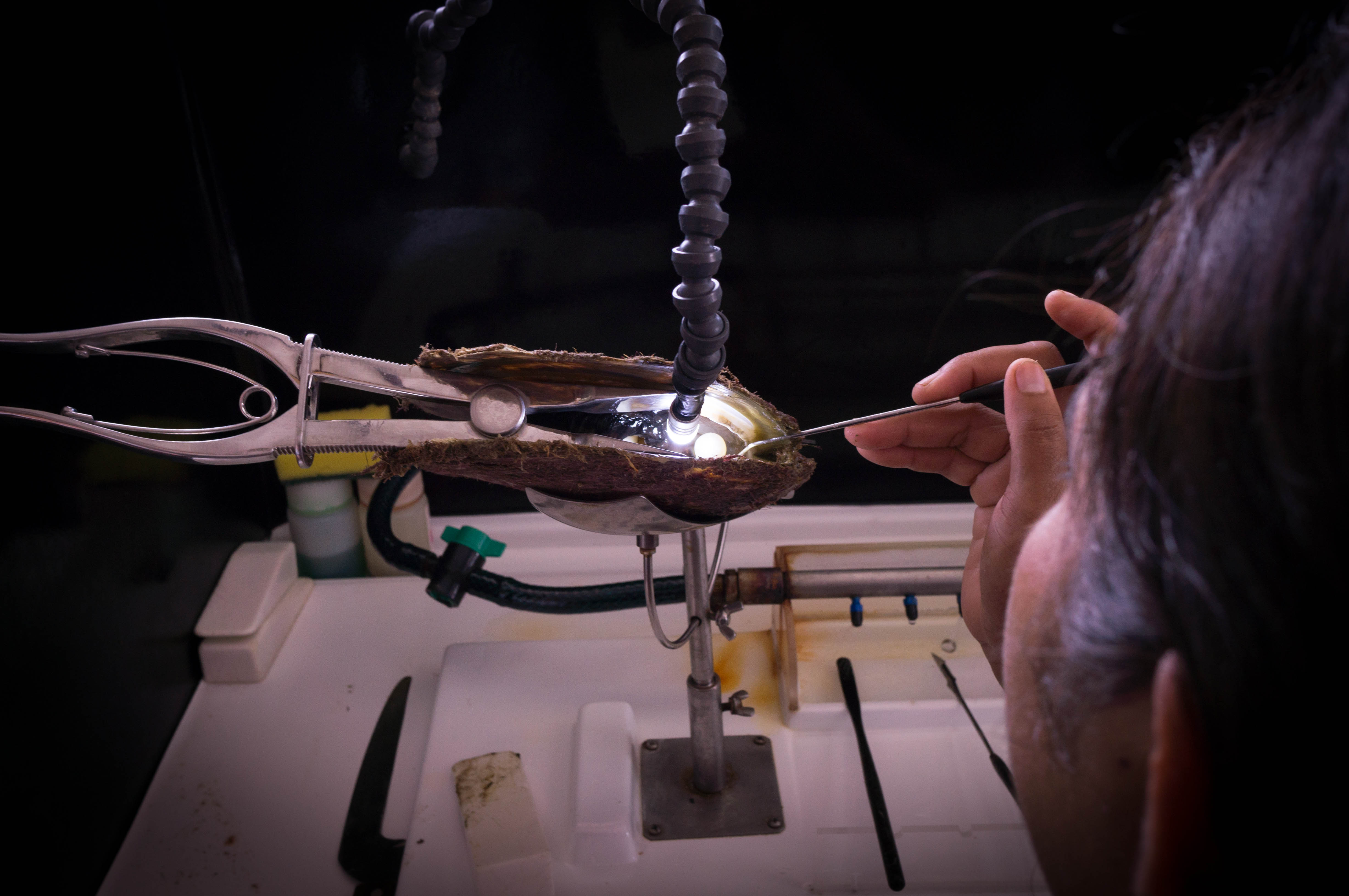 Harvesting pearl oyster at Atlas Pearl Farm, Raja Ampat, Papua.